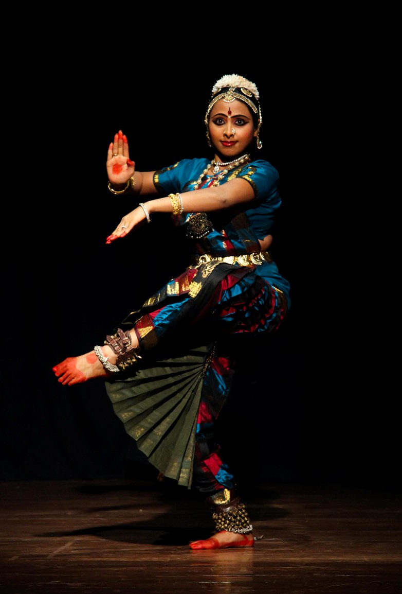 Photo of Murugashankari Leo while dancing during a concert.